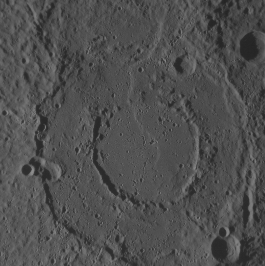 Bach crater on Mercury. MESSENGER Narrow Angle Camera. North is in upper right. Emission Angle: 4.6 Incidence Angle: 78.6 Latitude: -70.2 Longitude: 258.5 Phase Angle: 83.1